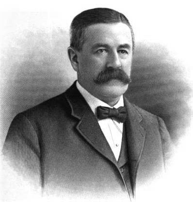 Portrait of Lucius E. Johnson (1846–1921), President of the Norfolk and Western Railway (1904-1921).